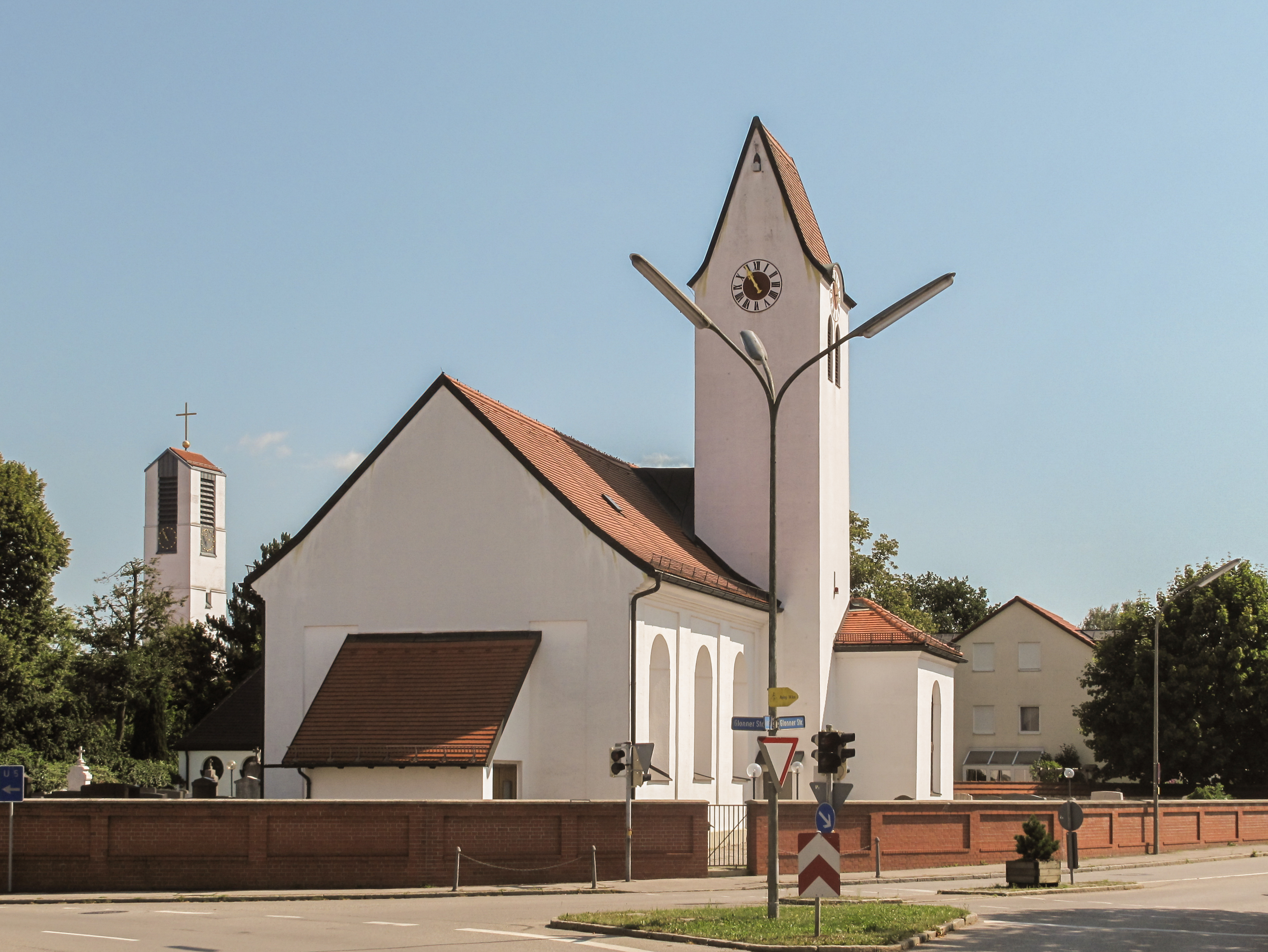 Putzbrunn, church: die Sankt Stephan Kirche